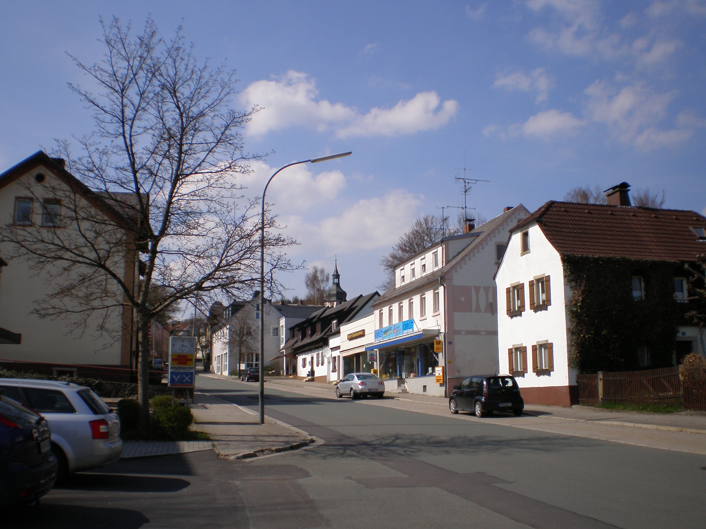 City of Schönwald in Germany, Bavaria.